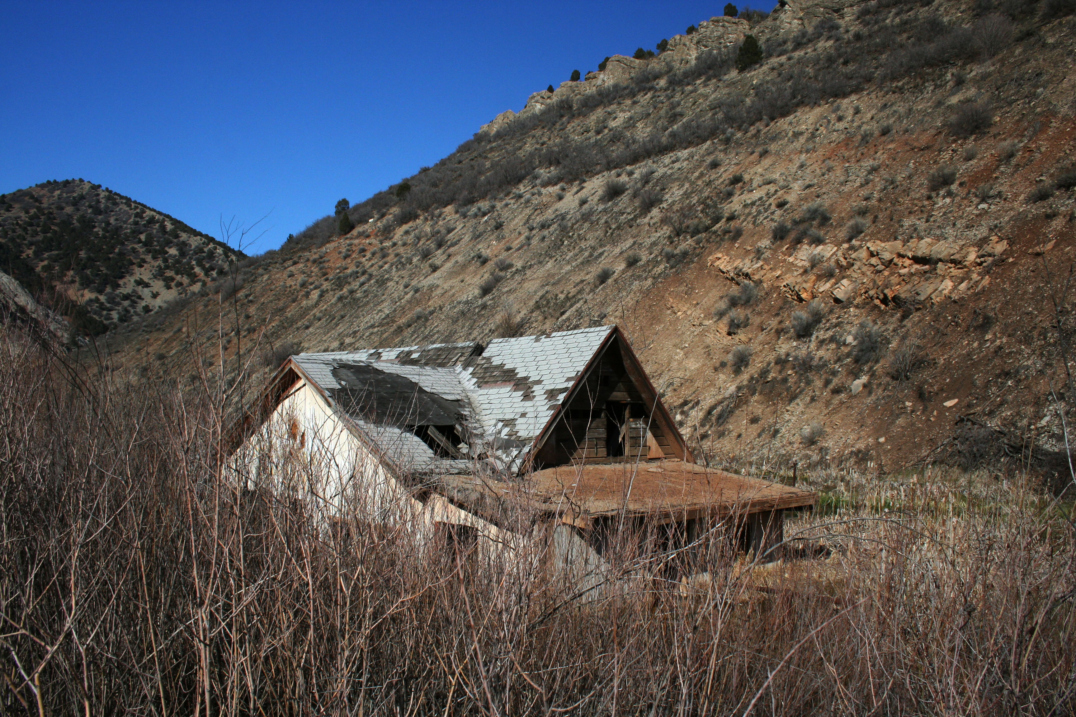 One of the few surviving buildings in Thistle, Utah.